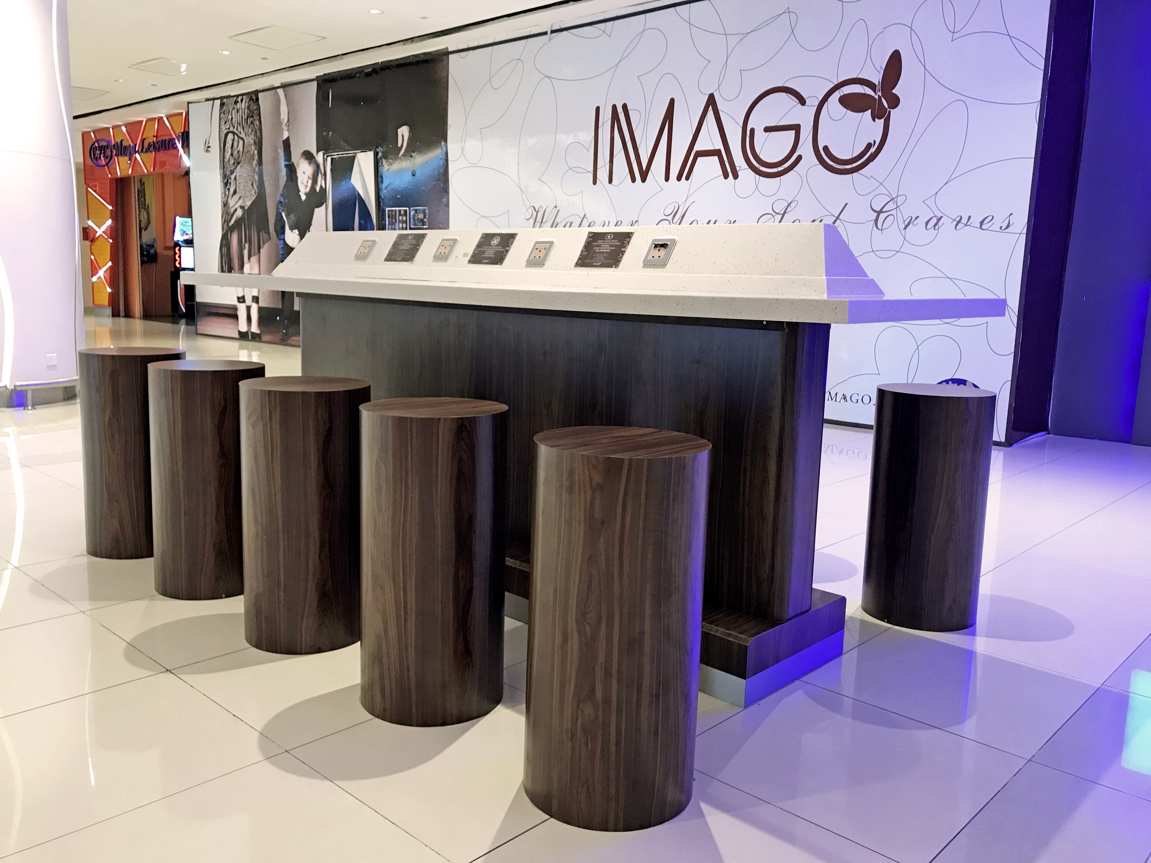 Charging Station at IMAGO